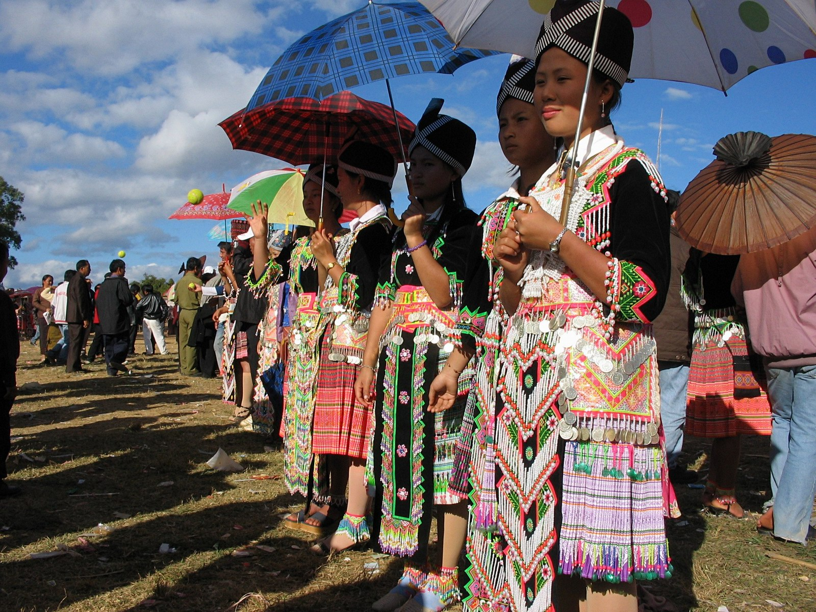 Hmong girls playing a traditional game of ball-tossing. This game is funny with conversation to find a potential husband.